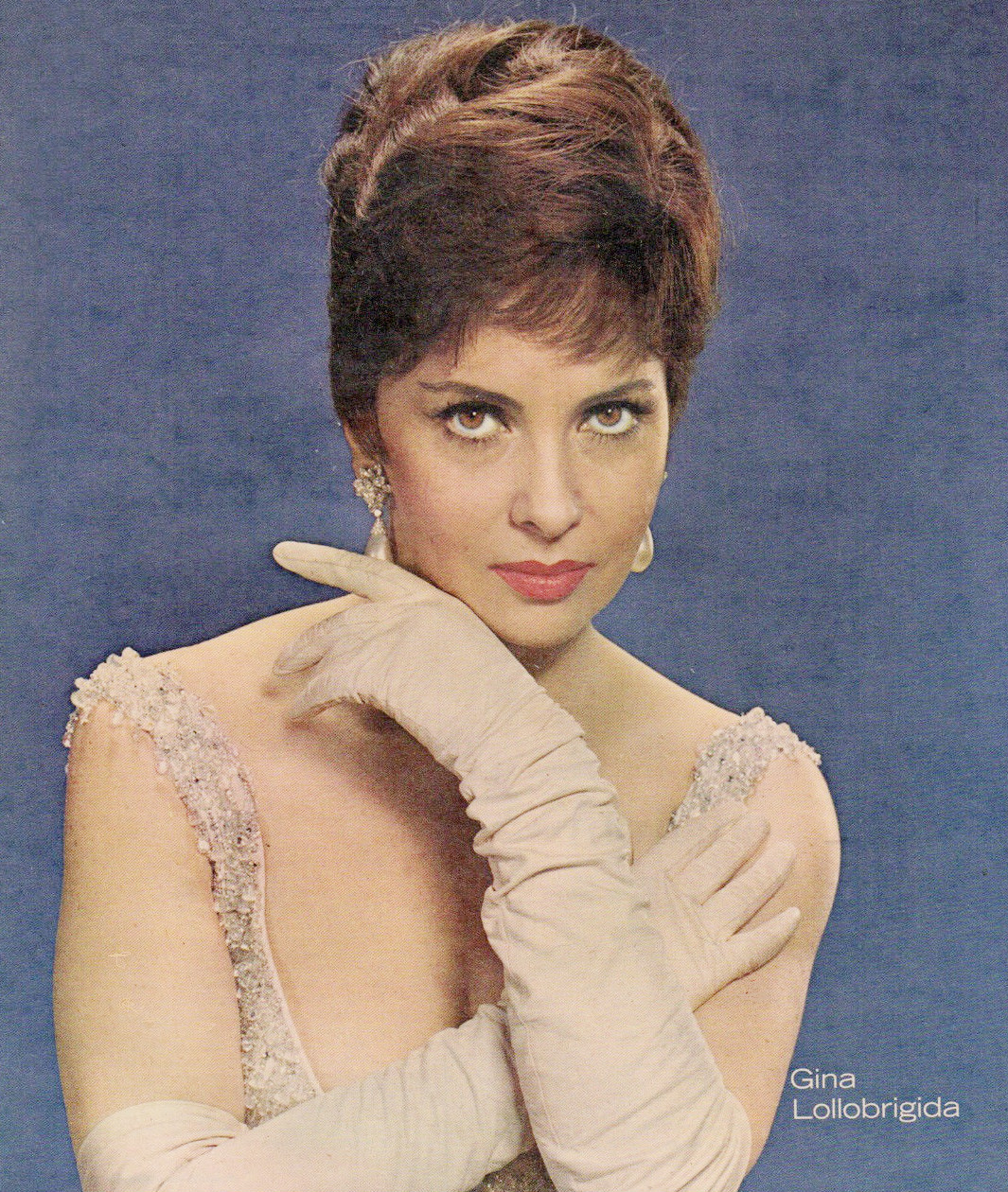 Photo of Gina Lollobrigida from the front cover of the New York Sunday News magazine. A renewal search was done at . There were only two renewals, both dealing with books serialized in the paper in 1959 and 1962. These renewals only deal with the portions of the books printed in the newspaper. Murder seed. By Philip MacDonald was serialized in the paper from September through November of 1959. The Toy sword. By Violet Elizabeth Cadell was serialized in 1962 during March and April of that year. There's no evidence of any renewal of copyright for the newspaper itself and nothing regarding the September 1, 1963 issue this photo is from.